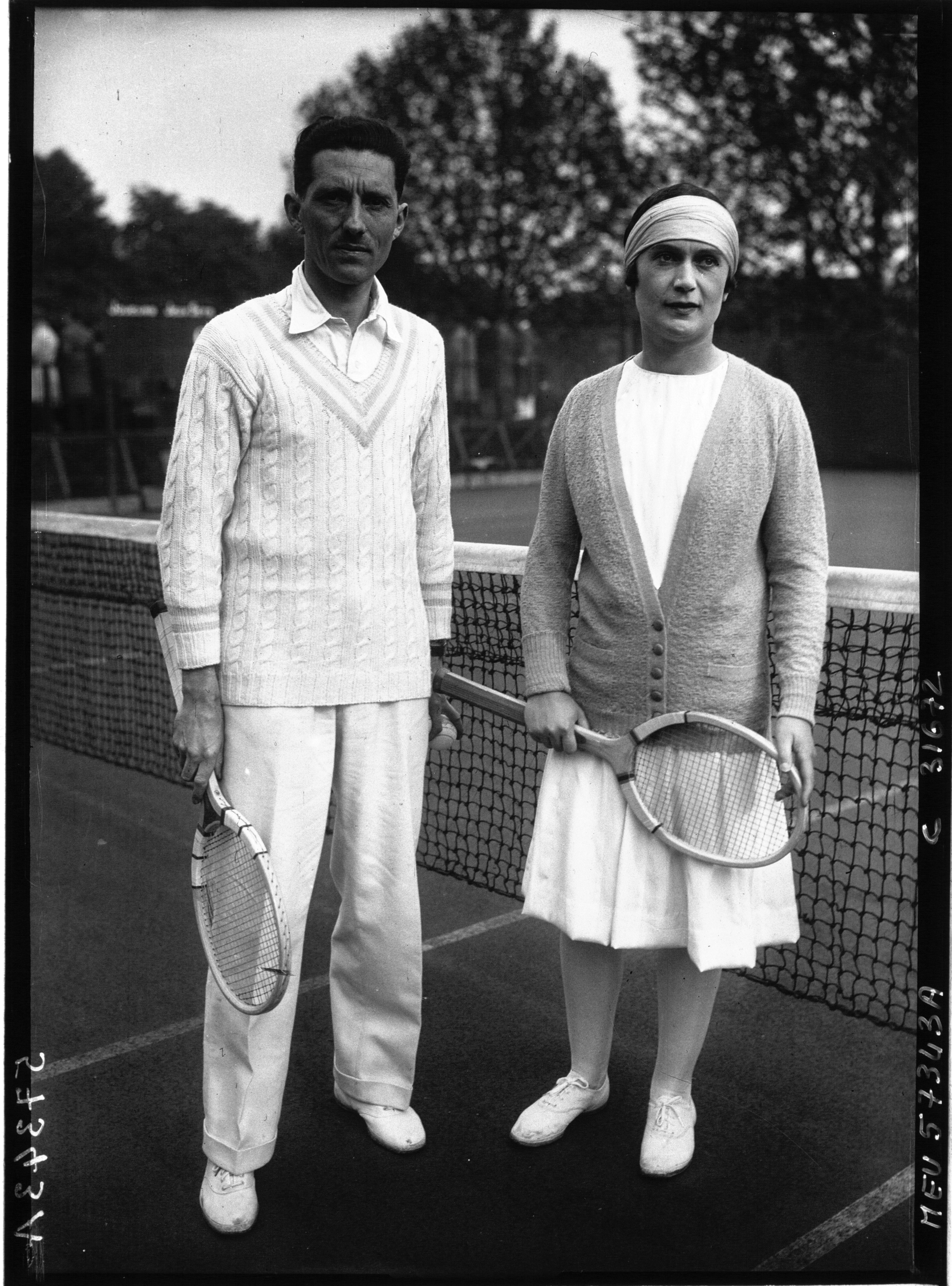 Brugnon and Le Besnerais in 1928